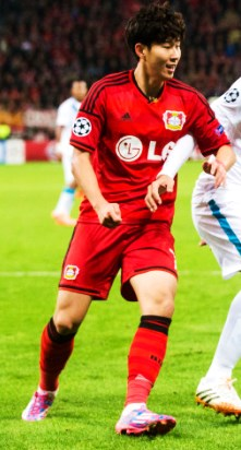 Son Heung-Min